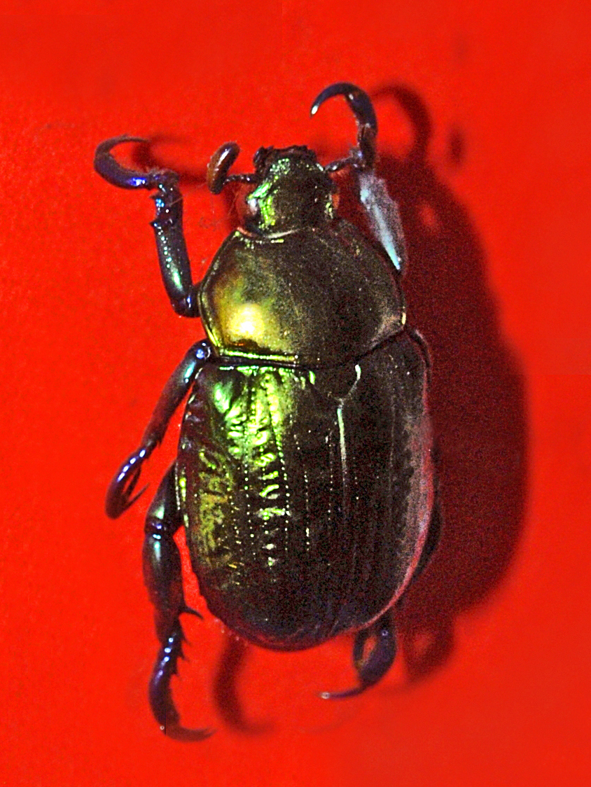 Museum specimen of Pelidnota sumptuosa. On display at the Museo Civico di Storia Naturale di Milano